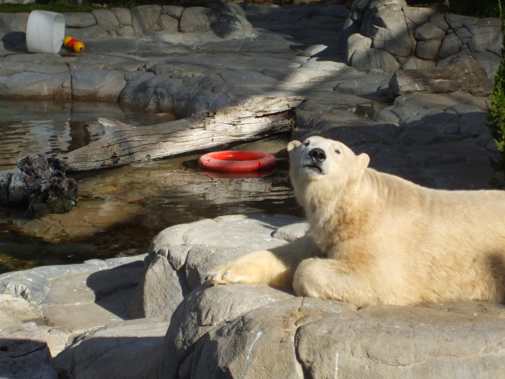 A polar bear at Sea World that is just about to get up for a stretch. On the Gold Coast, Queensland, Australia.